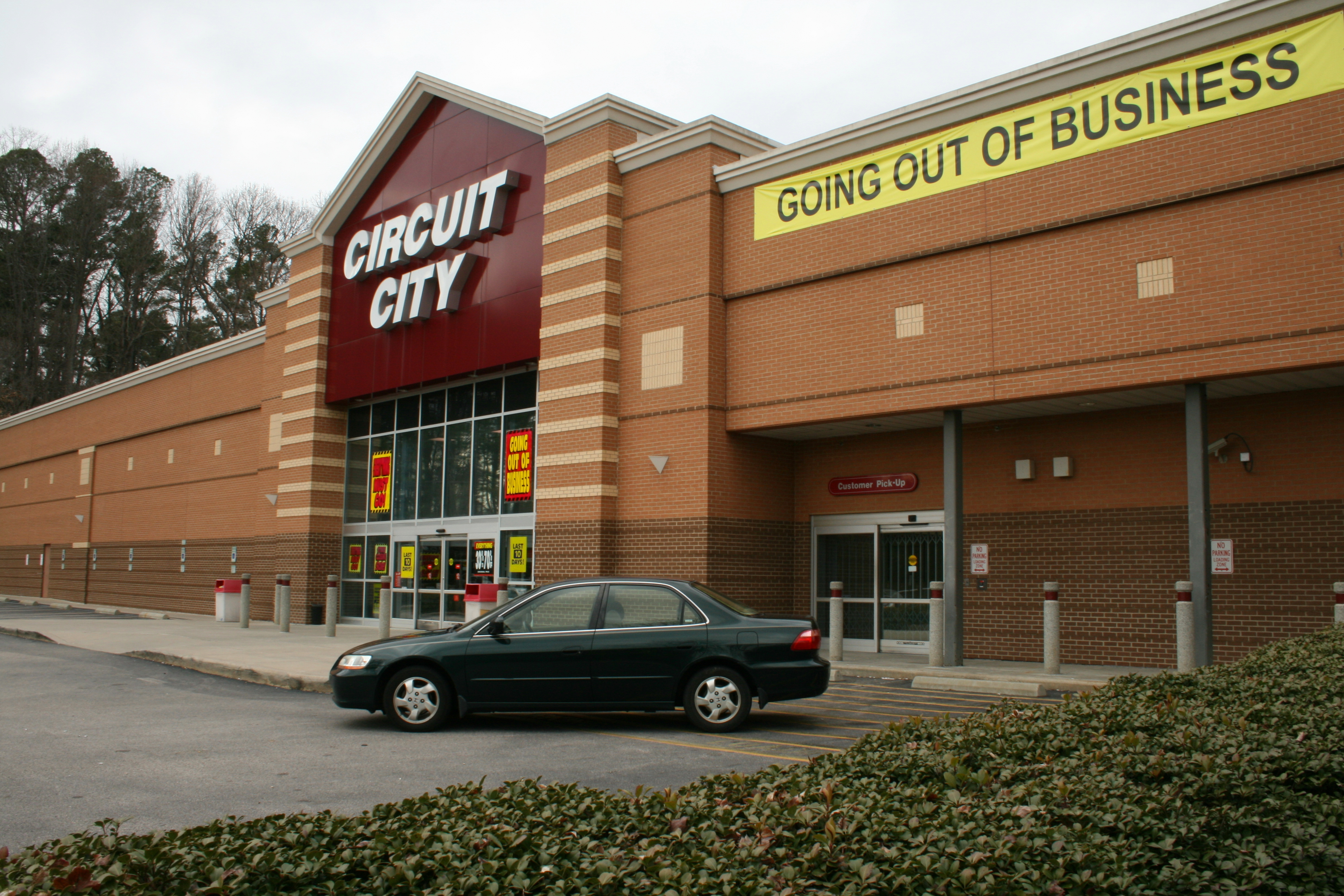 Circuit City going out of business at 4601 Creedmoor Road in Raleigh, North Carolina.